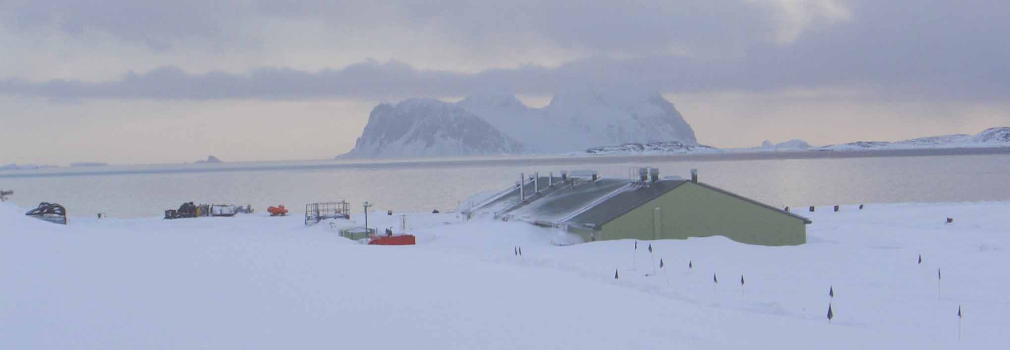 Bonner Lab at Rothera Station, taken in November 2003 after a winter of heavy snow accumulation. Taken by the author.